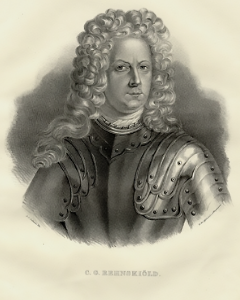 Lithograph of count Carl Gustaf Rehnskiöld.